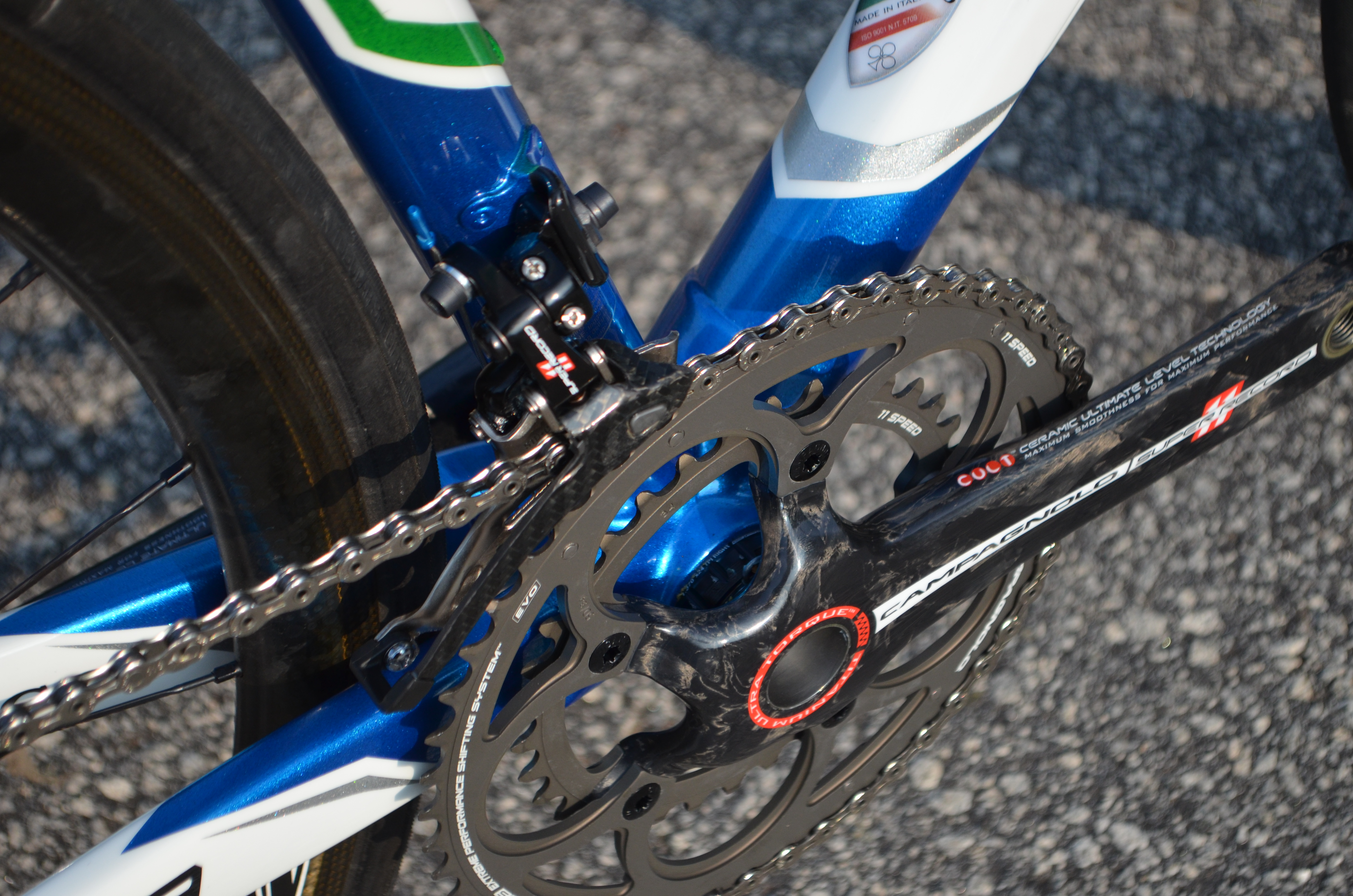 Colnago at Glory Cycles